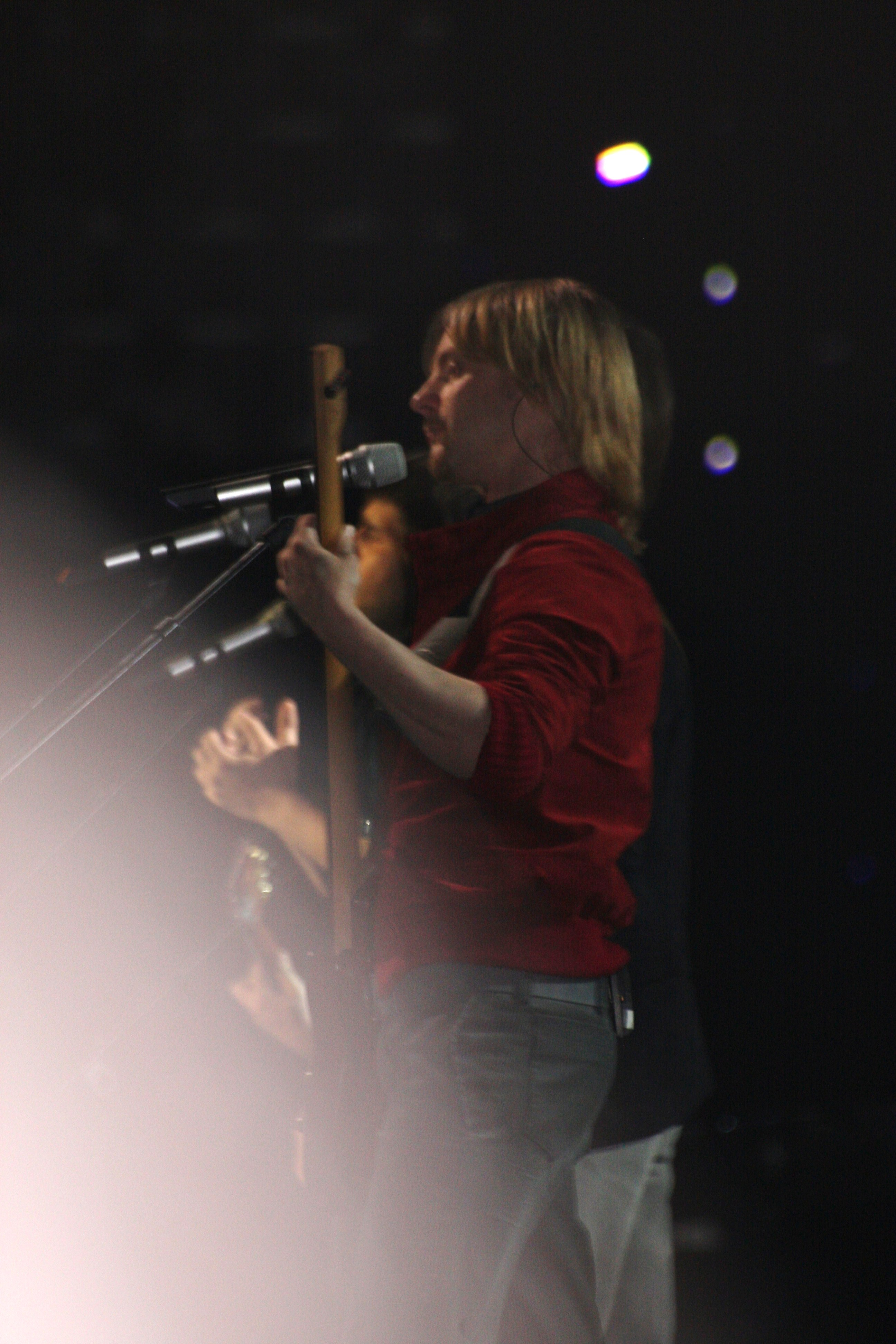 Peter Nalitch Band (guitarist in focus), artists of Russia in Eurovision Song Contest 2010, rehearsal, Telenor Arena. Norway.